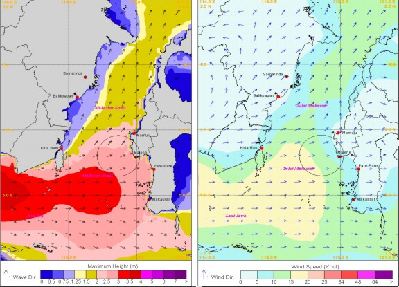 Weather condition during the sinking of MV Teratai Prima